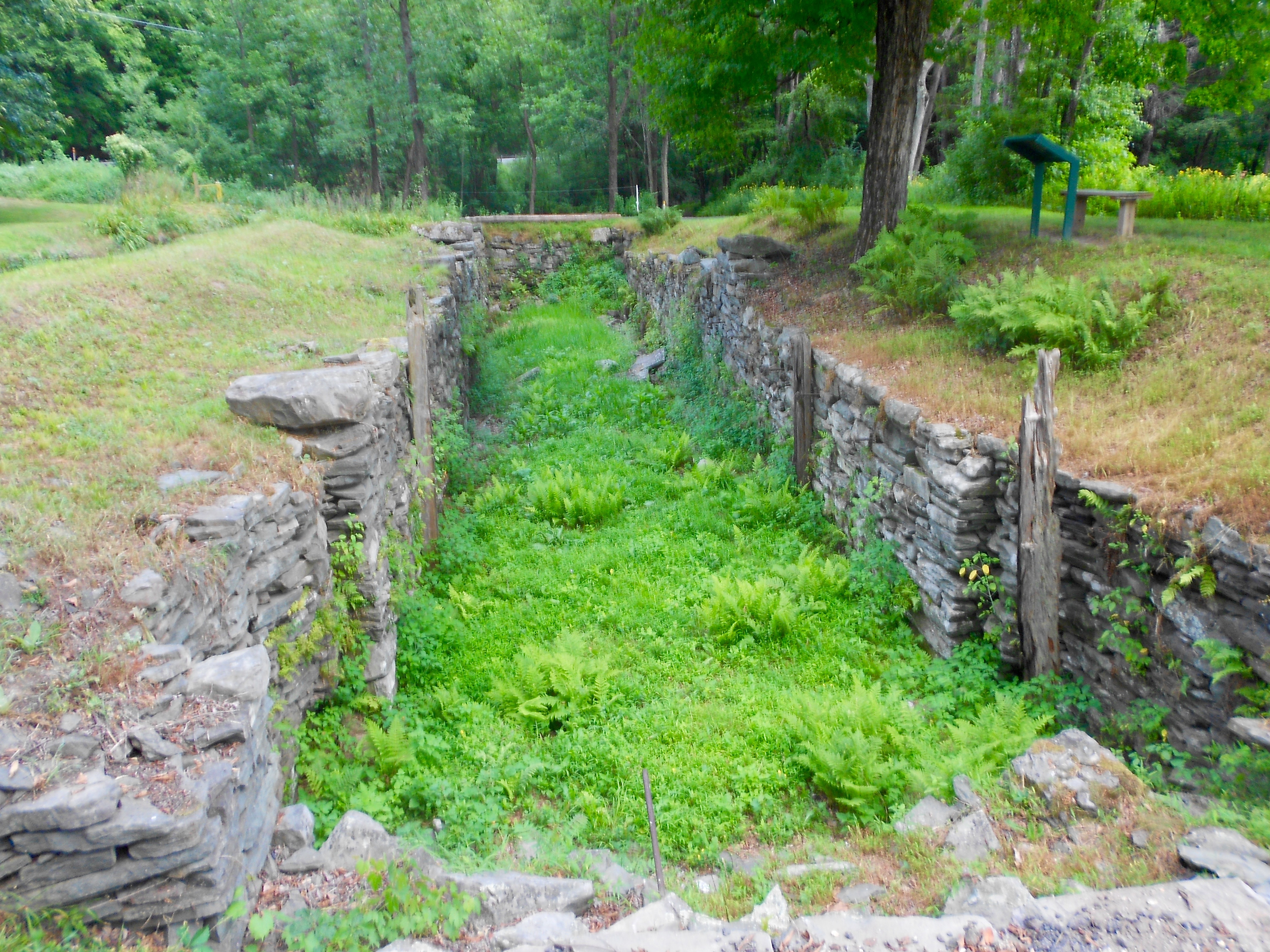 The remains of the Delaware & Hudson Canal Lock 31 in Palmyra Township, Wayne County, Pennsylvania. North of Hawley, PA